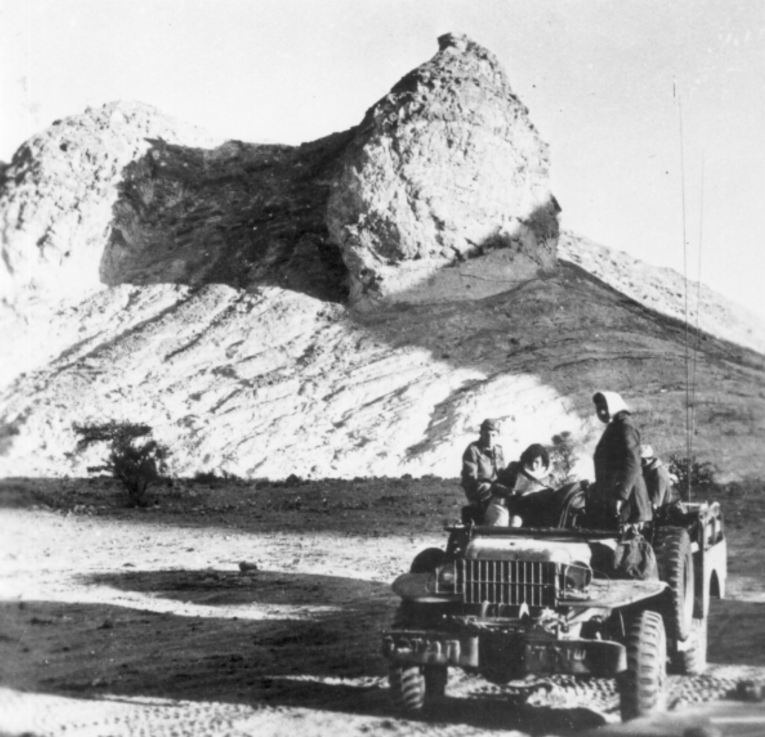 The Palmach, Israel Defense Forces